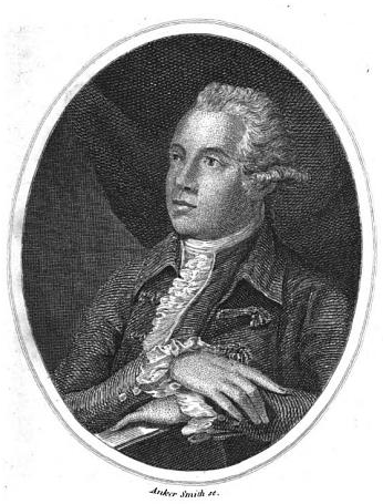 Portrait of George Colman (1732-1794)